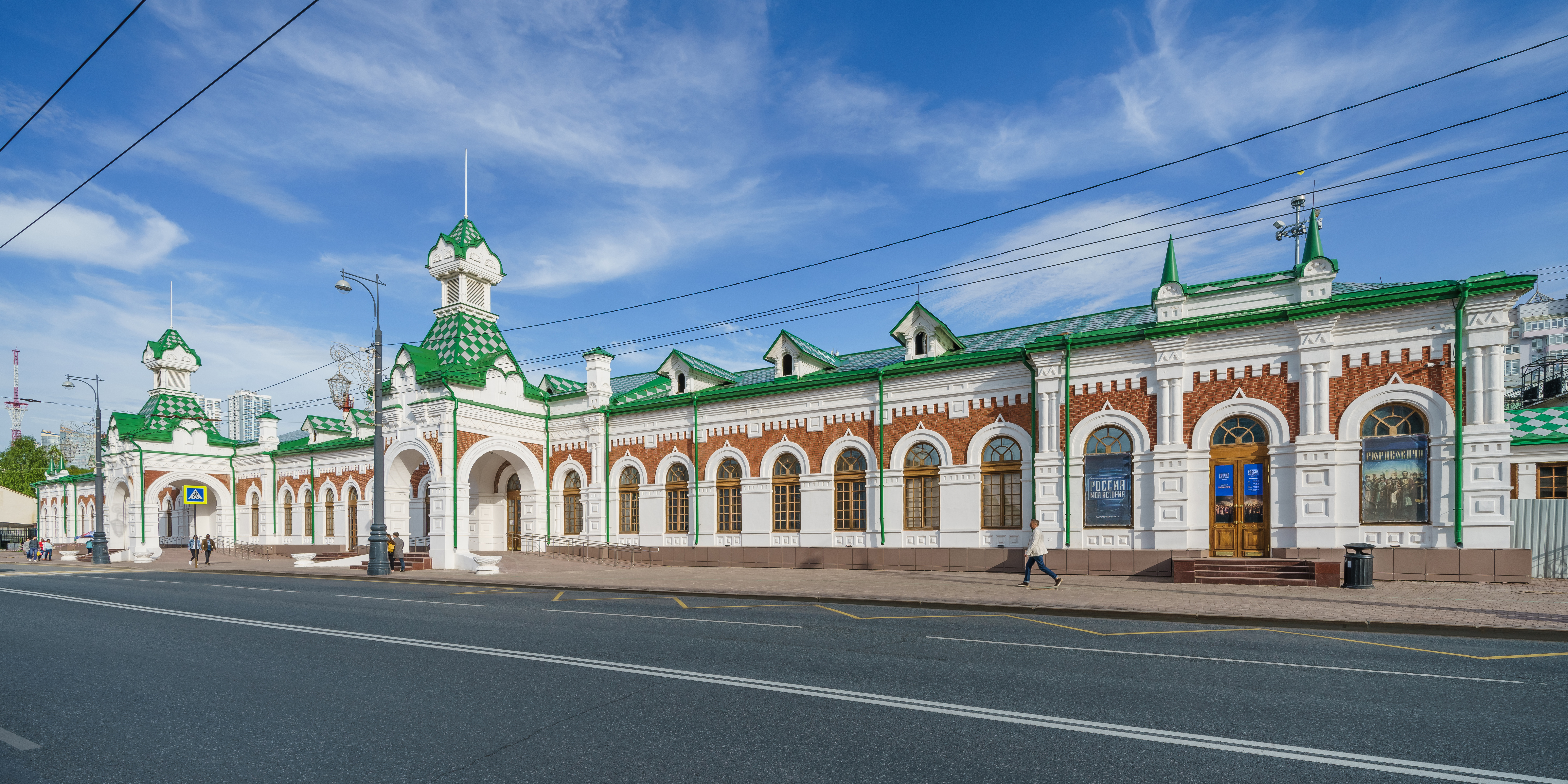 Perm-I railway station in Perm, Russia